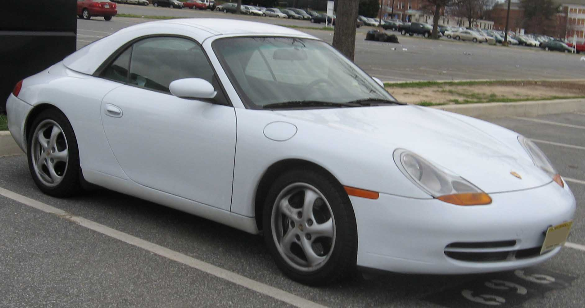 Porsche 911 photographed in College Park, Maryland, USA.